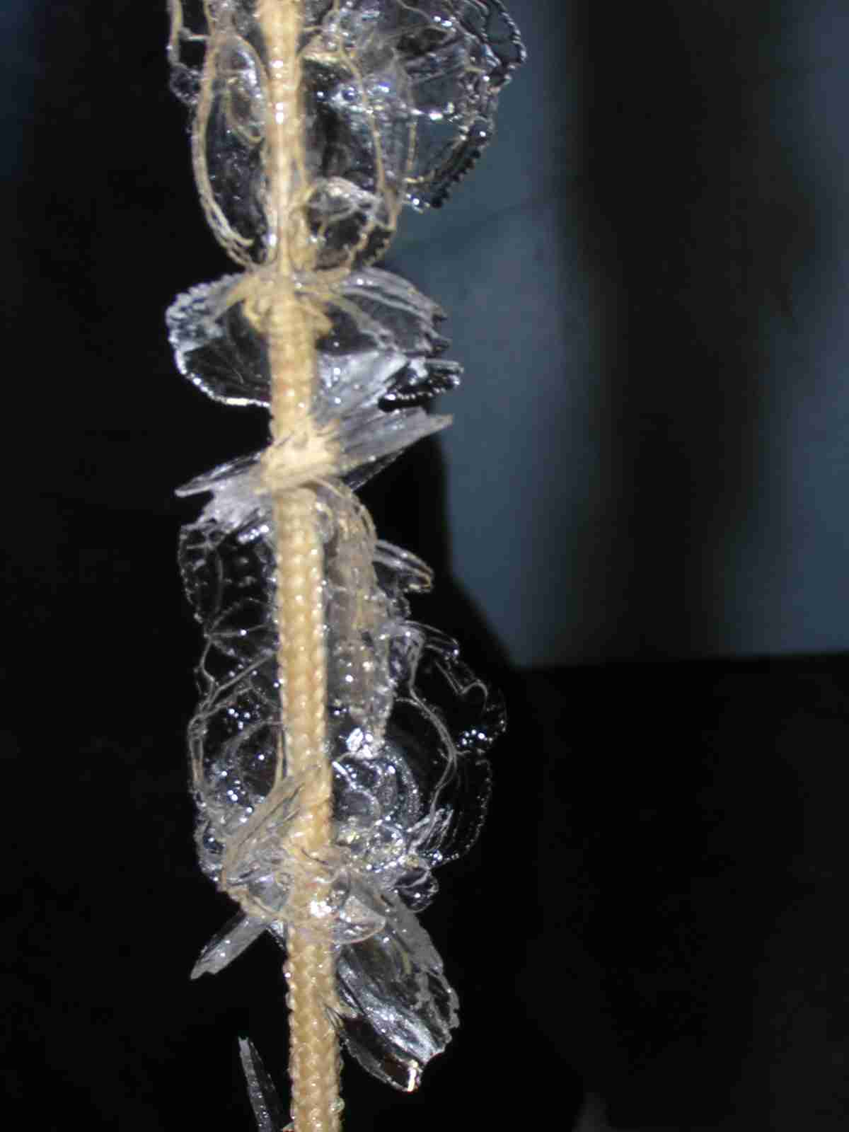 Anchor ice platelets on a rope that had been suspended in the water column for several hours in McMurdo Sound, Antarctica. Platelets can be as large as 10cm in diameter, but it is more likely to observe platlets of about 5cm in diameter. Ice growth of this nature can occur in as little as a few hours, or may take several days, depending on the conditions. Photo by DeVries/Cheng lab, University of Illinois, Urbana-Champaign, USA.